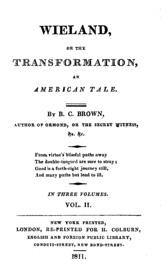 1811 reprint of the novel Wieland, or, The Transformation by American writer Charles Brockden Brown. Published for H. Colburn, Conduit-Street, New Bond-Street.